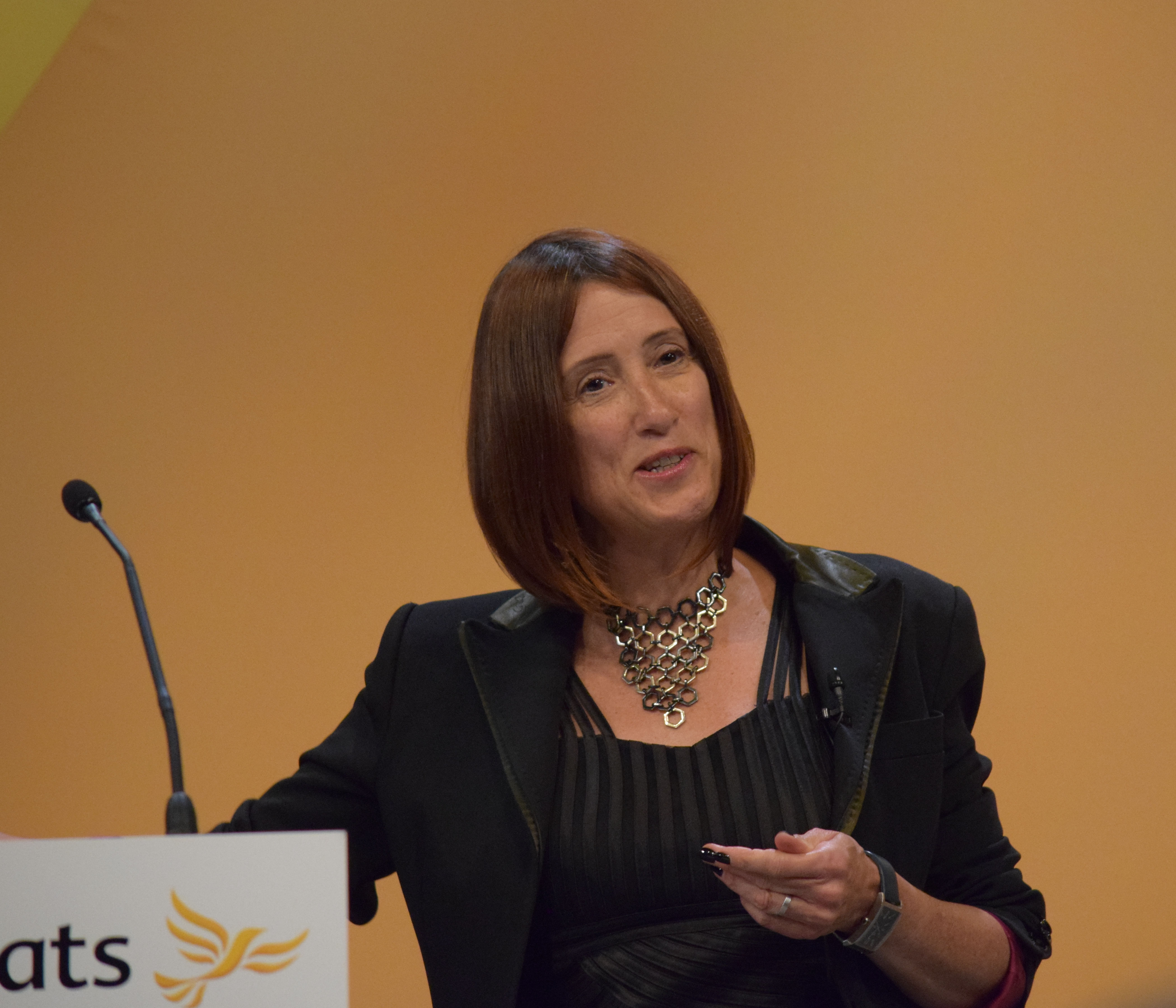 Jane Dodds, Leader of Welsh Liberal Democrats, addressing the 2018 Liberal Democrat conference in the Brighton Centre